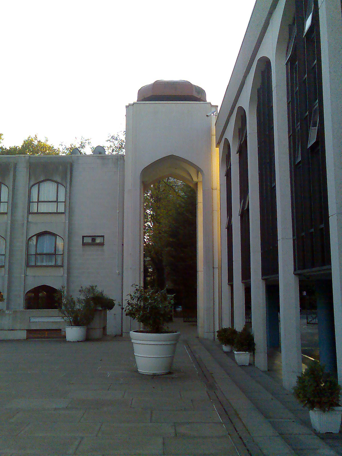 London Central Mosque main gate